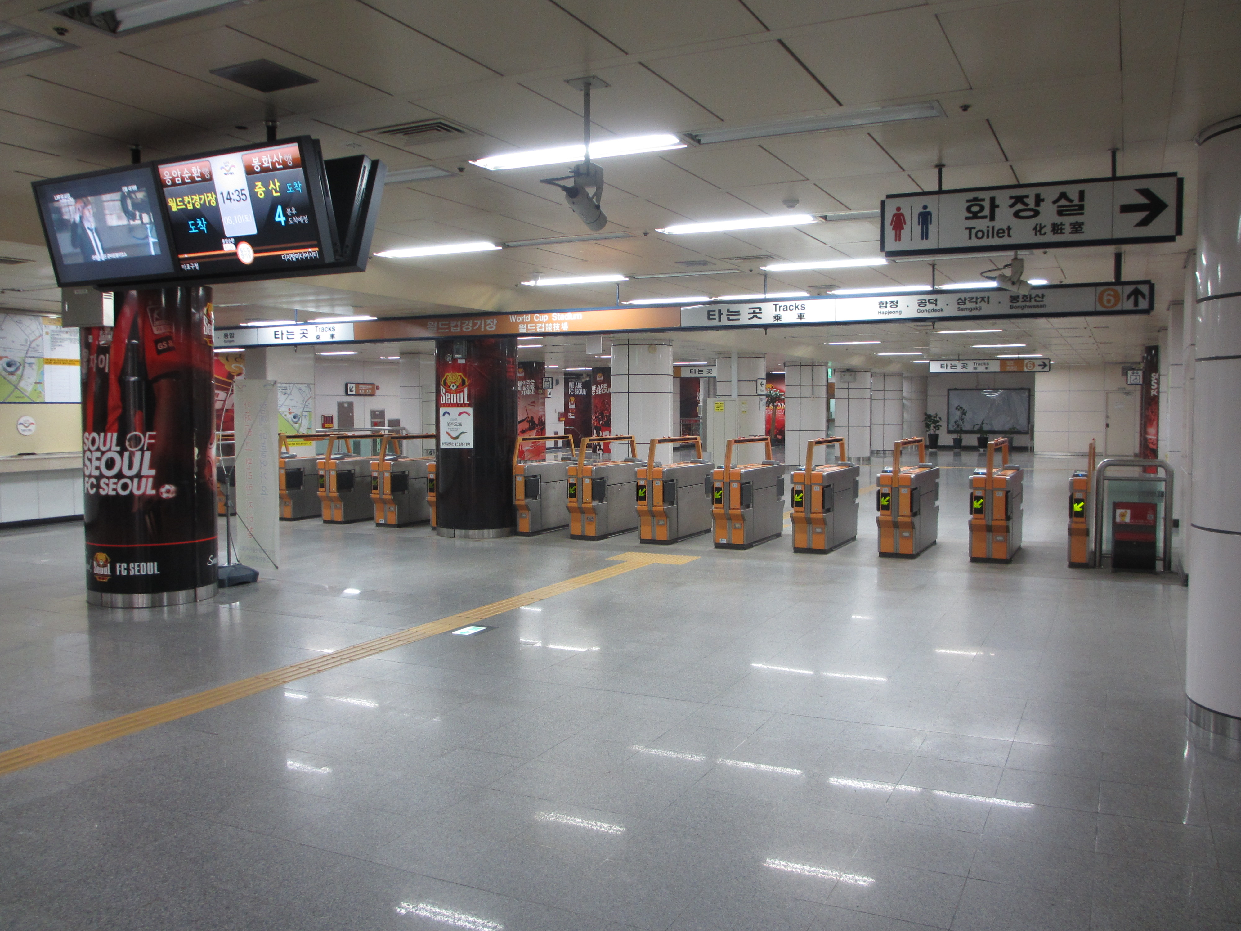 World Cup Stadium Station Exit 2 Ticket Gates.